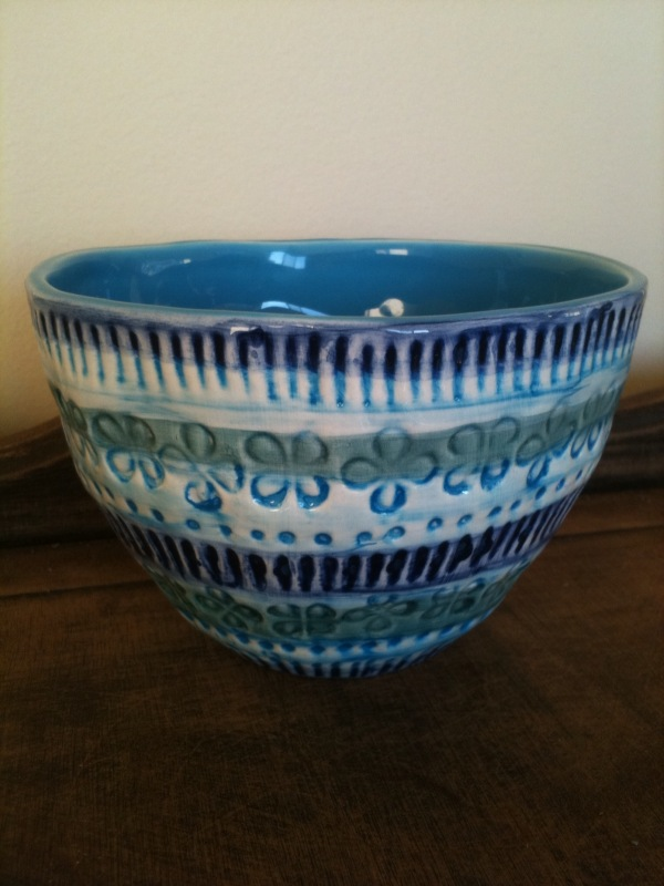 Stoneware bowl made in Portugal